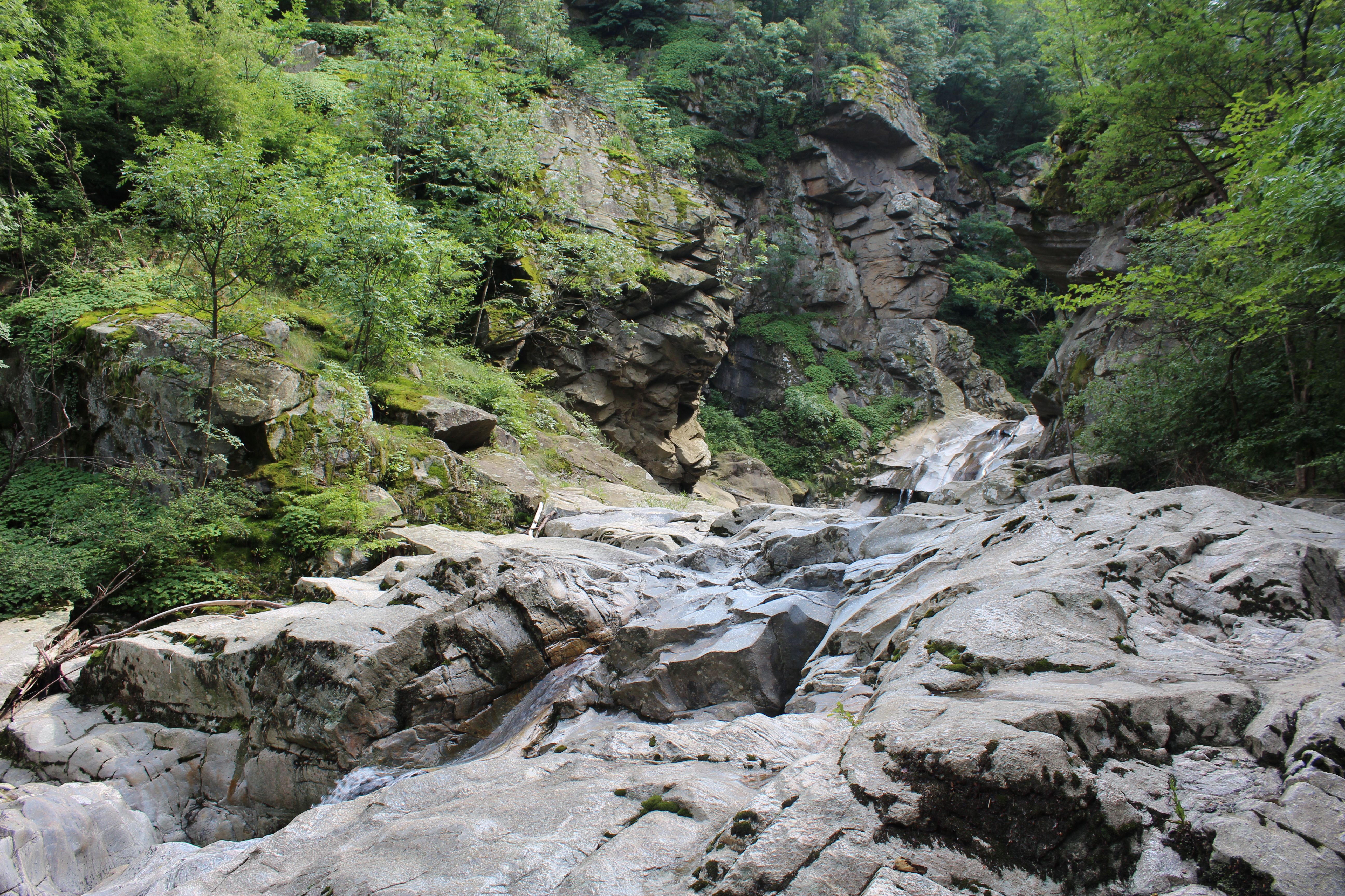 Vučjanka canyon. Srpski (latinica): Kanjon Vučjanke.